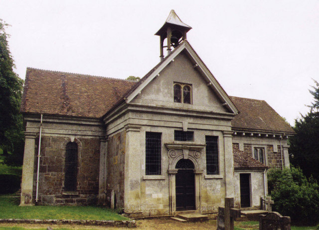 St Mary, Hale Grade 1 listed building erected in the 15th century.